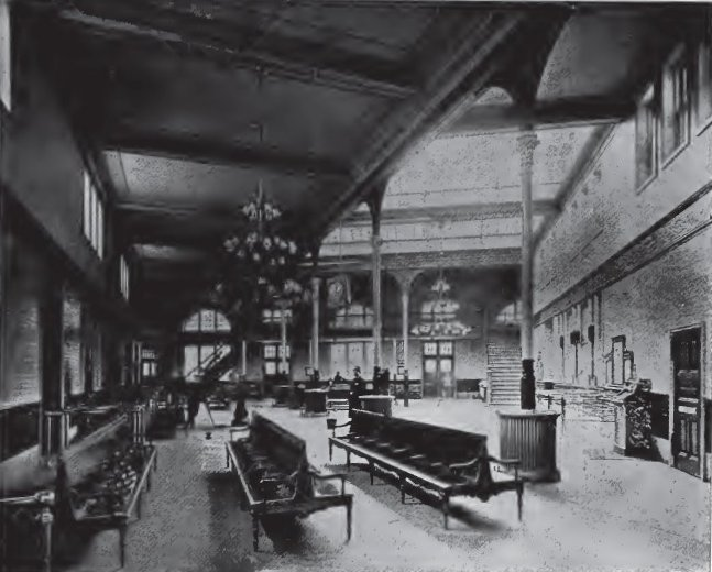 Interior of the Long Island Railroad Station, Flatbush Avenue, Brooklyn, New York.